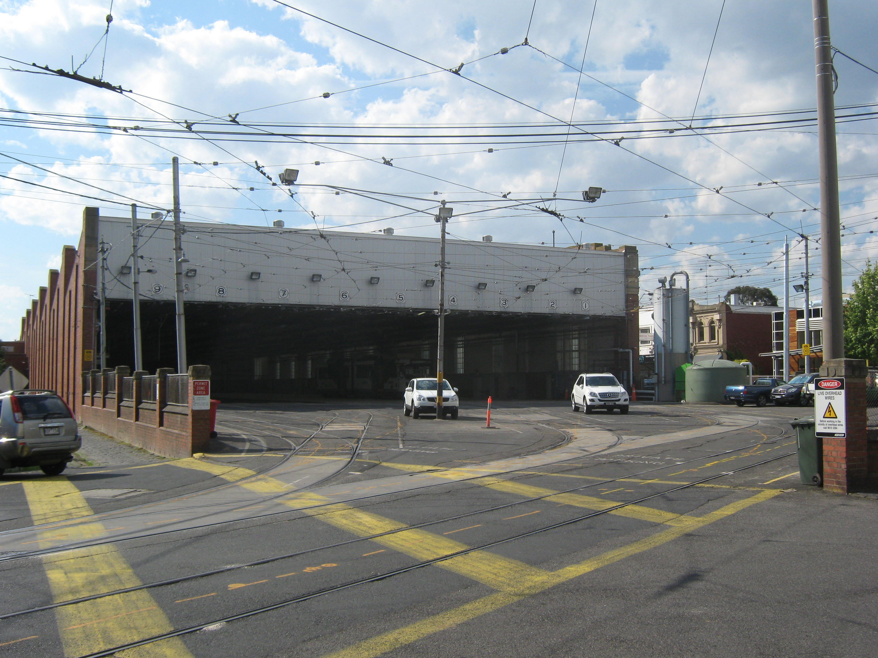 Camberwell Depot mid afternoon, with only one tram (B class) stabled, 2011